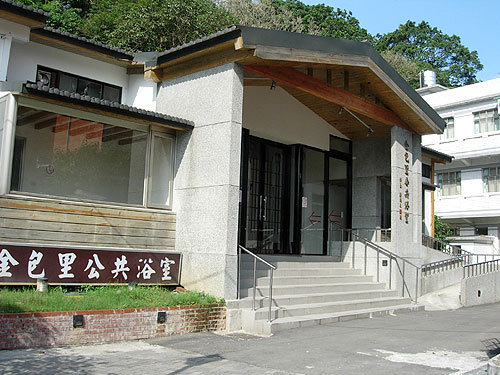 Jin-Shan-Public-Shower-room.jpg 金包里公共浴室